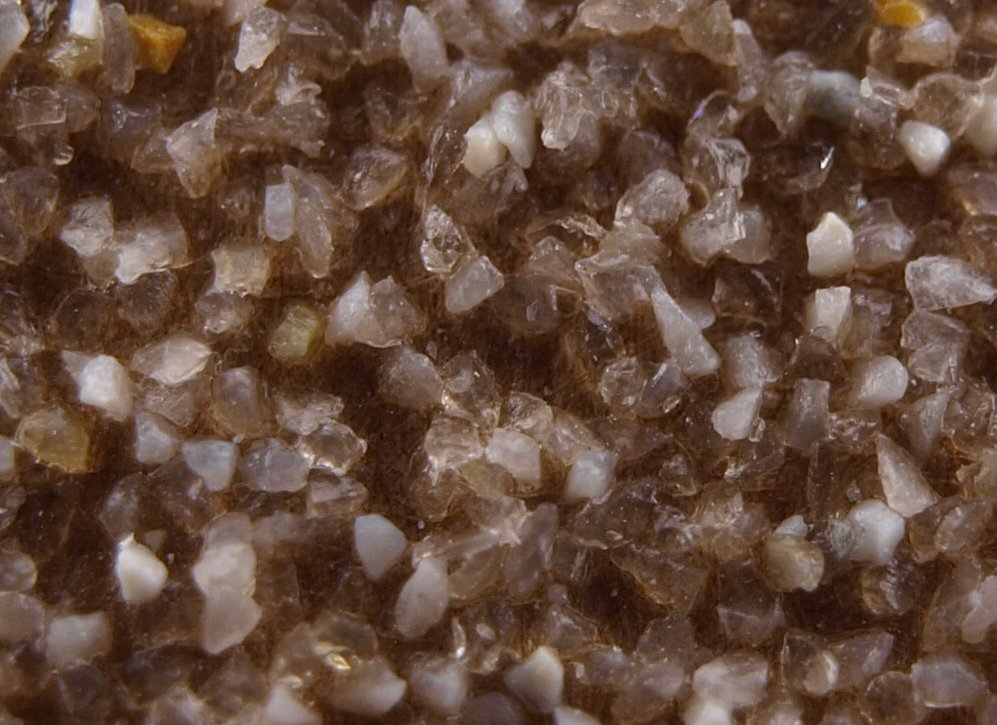 Sandpapier 60